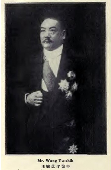 Wang Yuzhi (1875-1933)